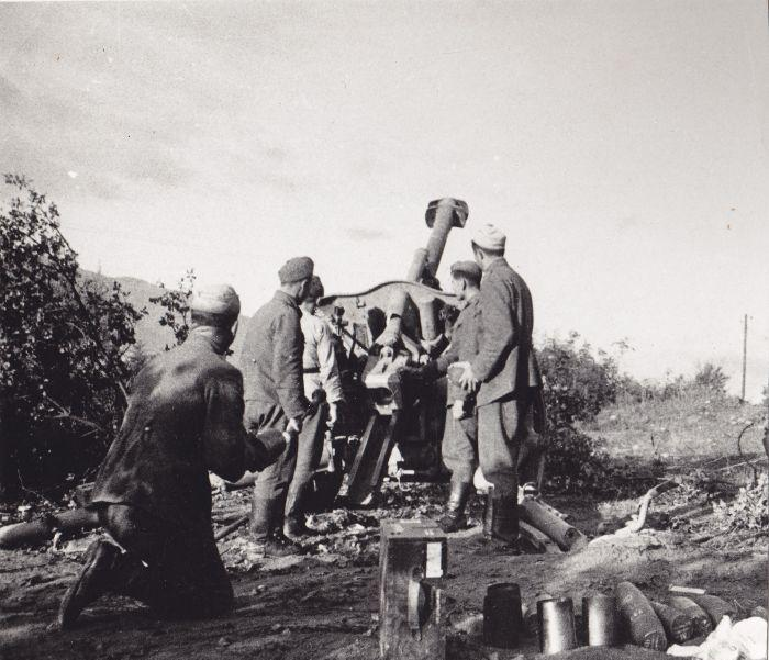 Artillery position of the Bulgarian army near Strumica, in October 1944.